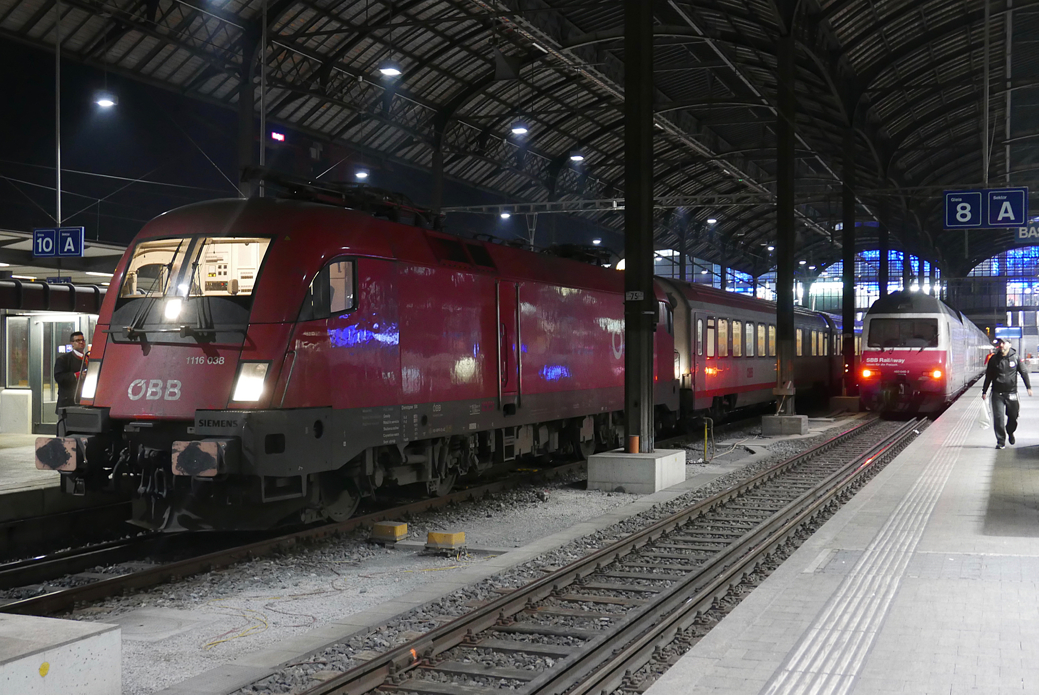 ÖBB 1116 038 at Basel SBB railway station ahead of EuroNight 470 "EN Night Jet" from Zürich HB to Hamburg-Altona.